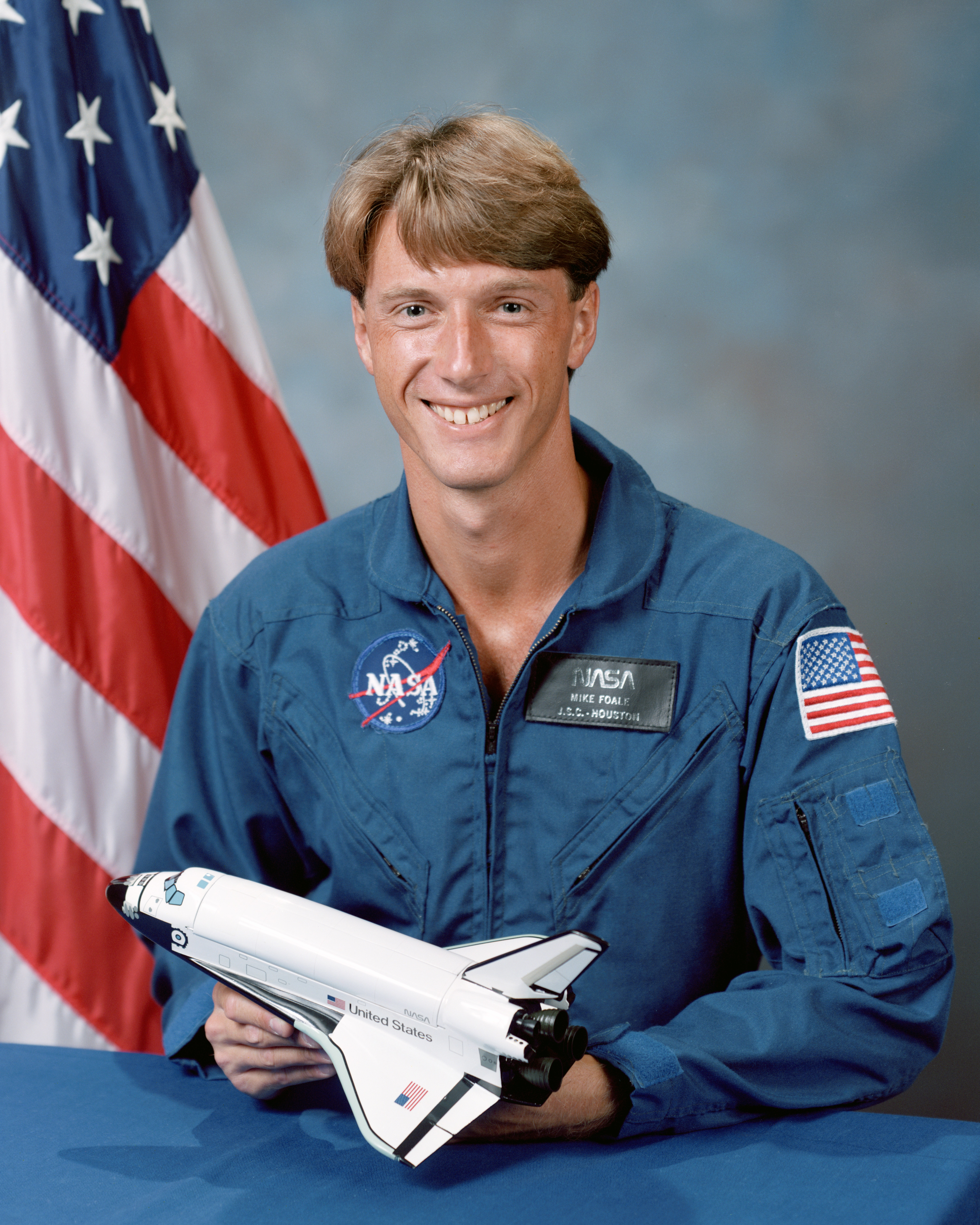 Astronaut C. Michael Foale, mission commander